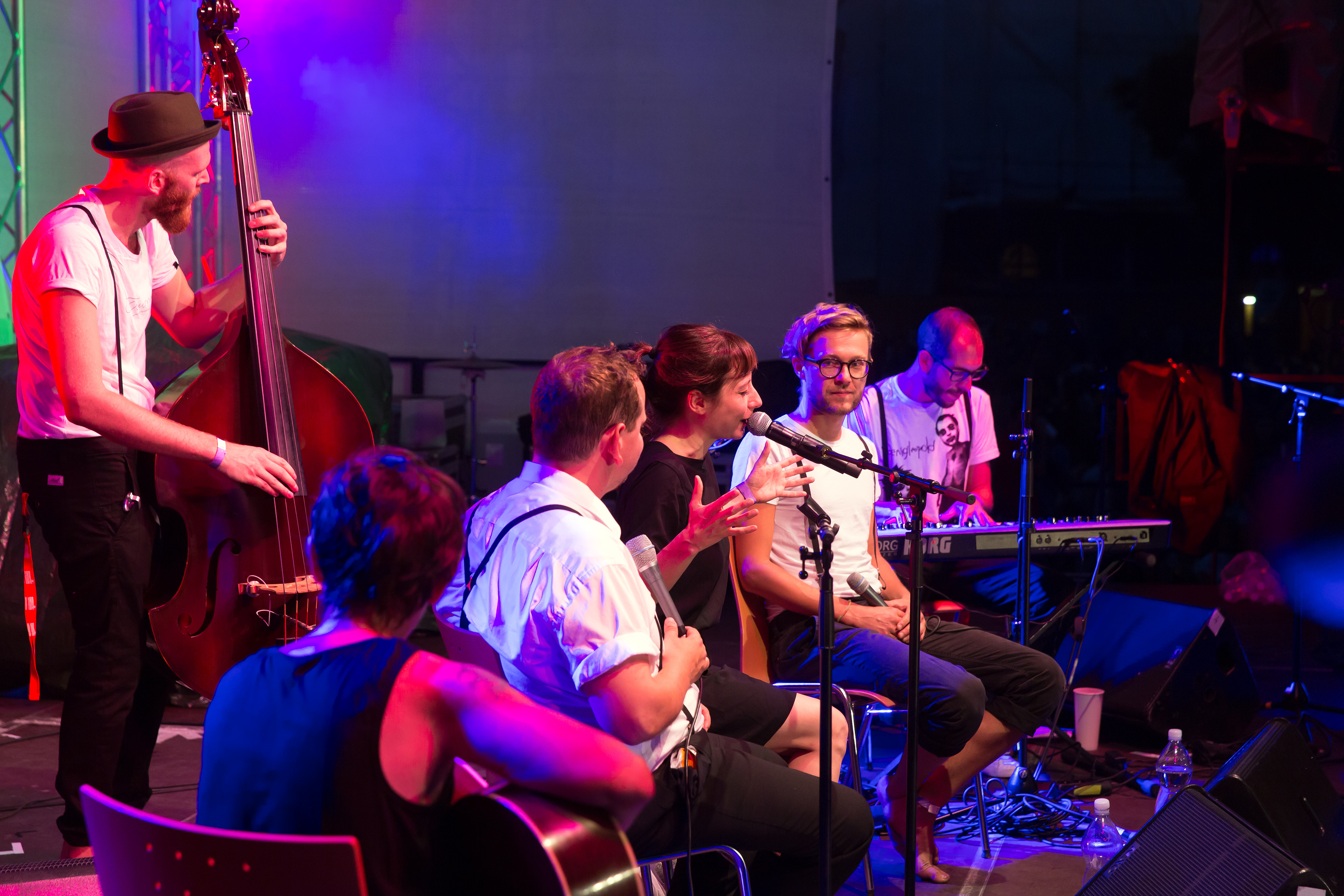 Popfest 2015: 5/8erl in Ehr'n feat. Fiva; Karlsplatz in Vienna, Austria.